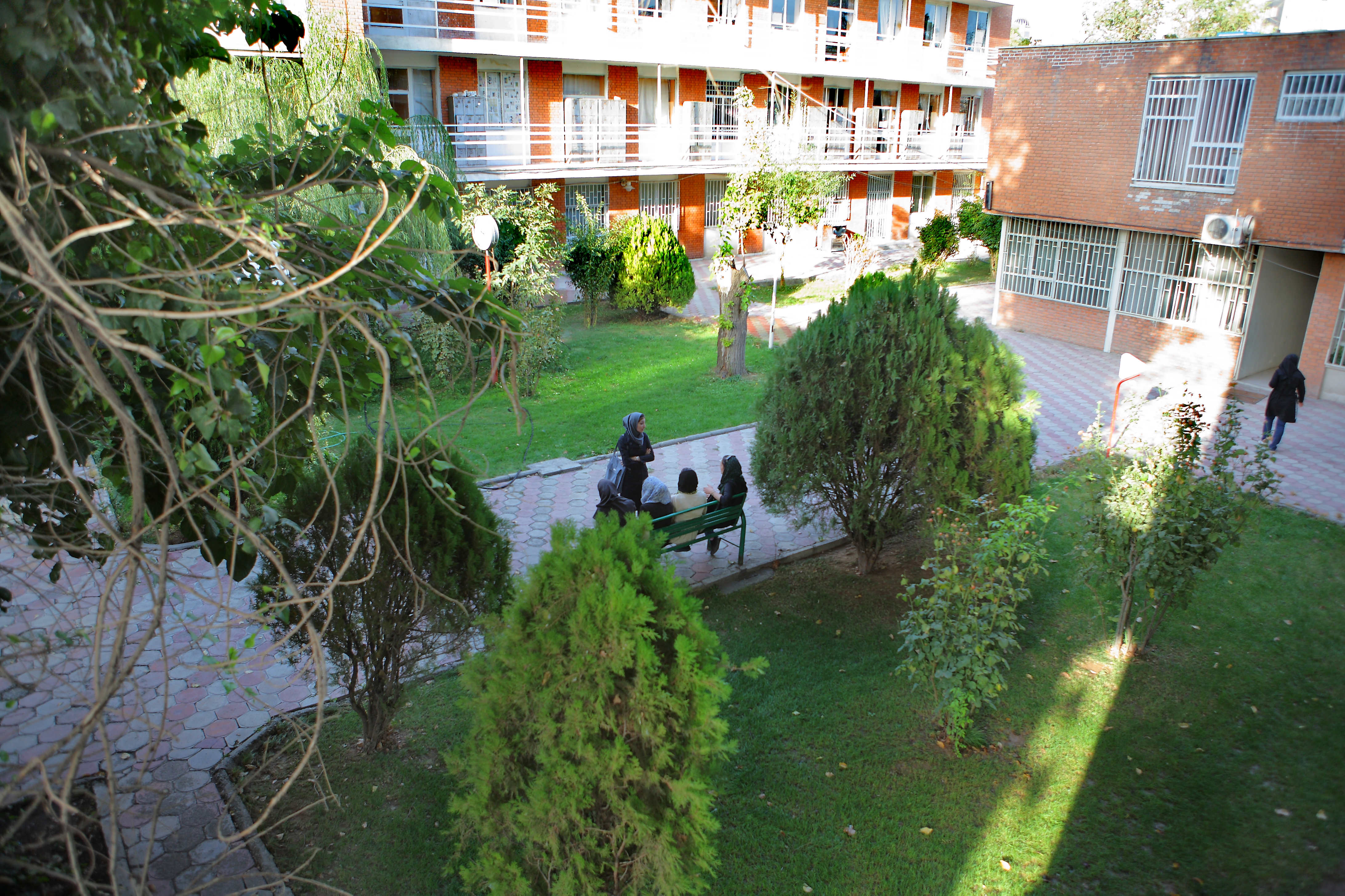 Art faculty of alzahra university